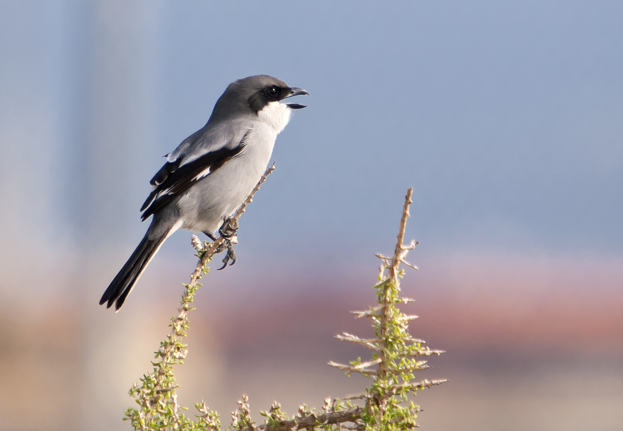 I only take photos from birds in freedom without any decoy